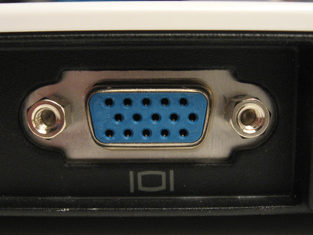 A standard VGA port.